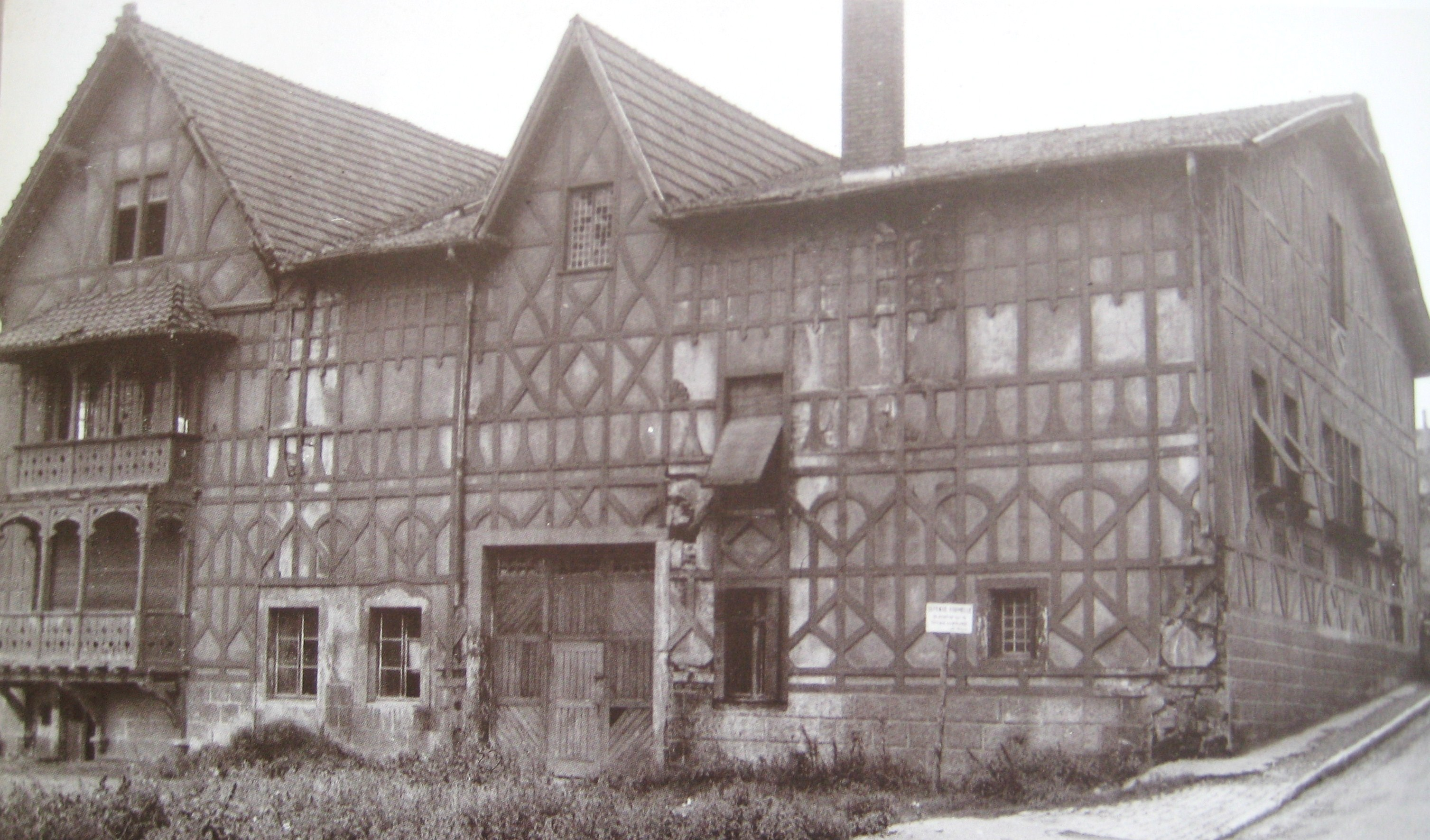 Description ancien chateau Rombas Date11 August 2011Sourcecollection personnelleAuthorUnknownUnknown authorPermission(Reusing this file) ancien chateau Rombas